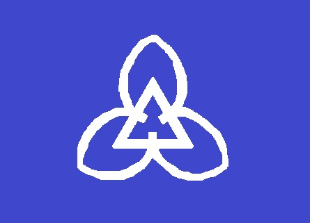 Flag of Oyamazaki Kyoto